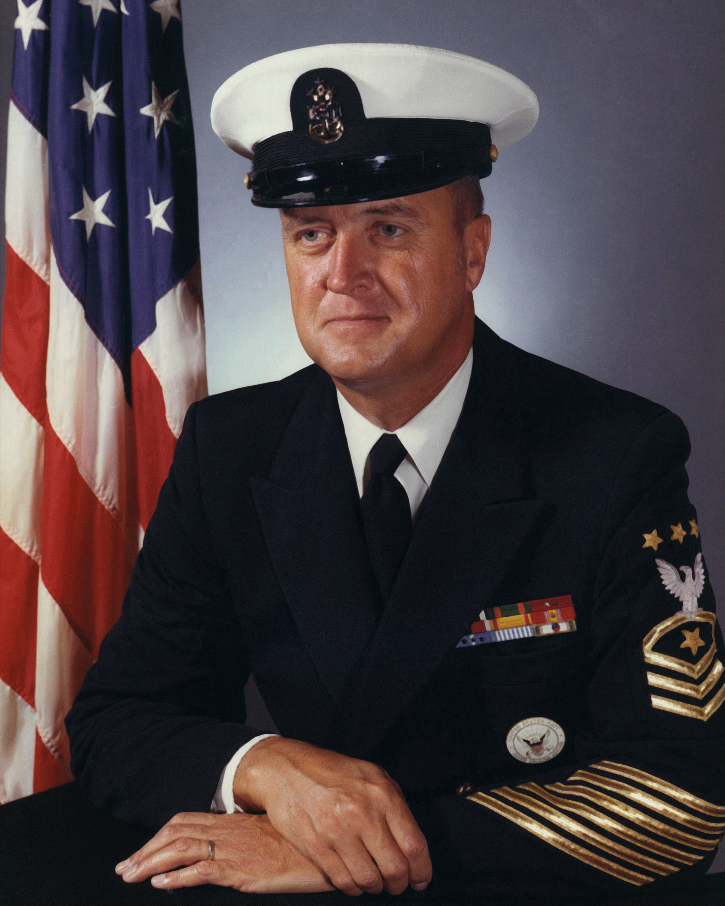 OSCM Robert J. Walker, USN Third Master Chief Petty Officer of the Navy September 25, 1975 to September 28, 1979